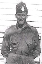 Donald Hoobler in Manchester, Ohio.